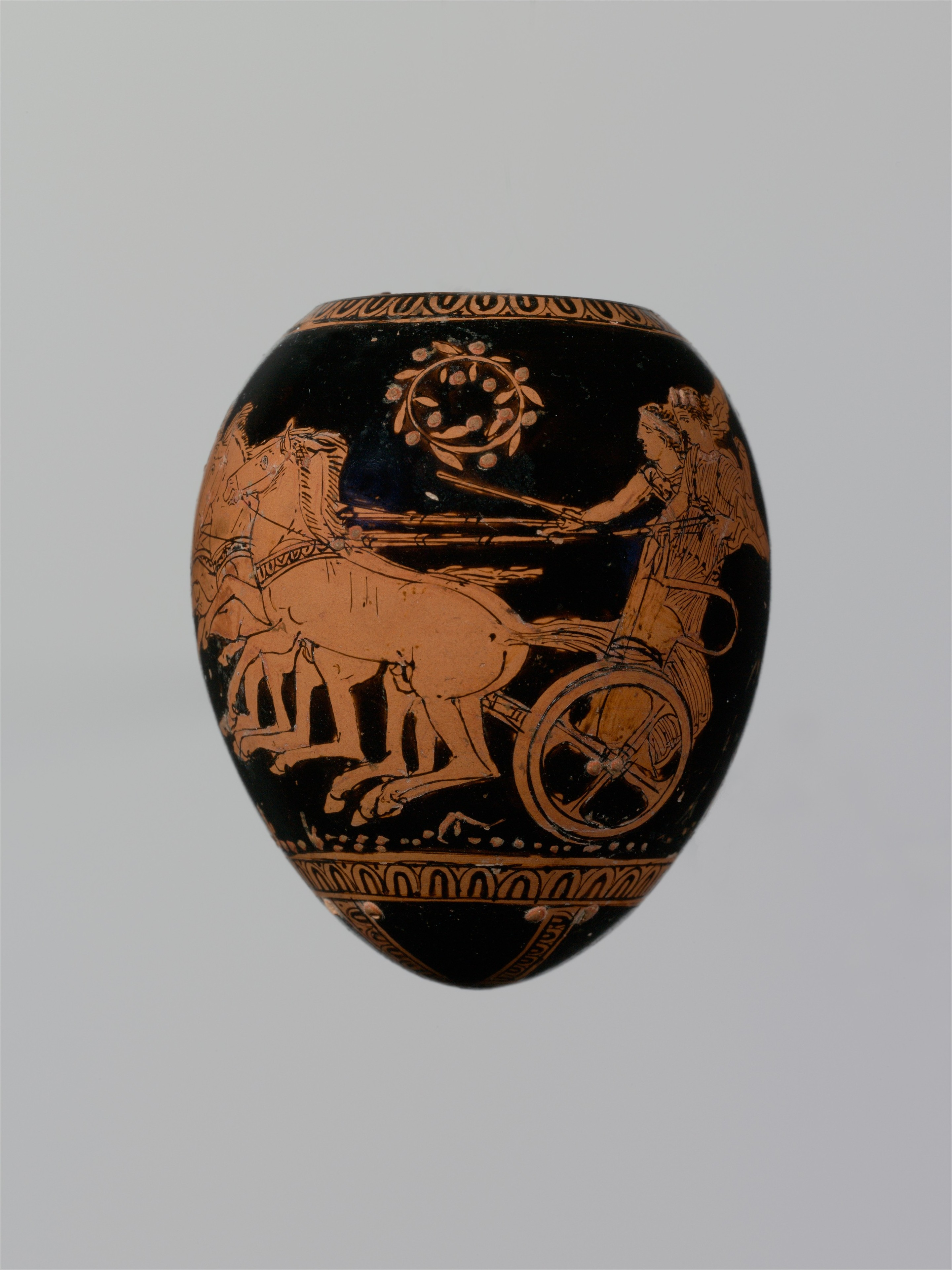 Greek, Attic; Oon; Vases